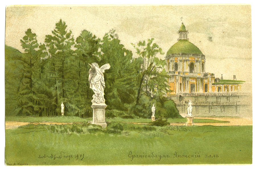 Oranienbaum. Japanese hall